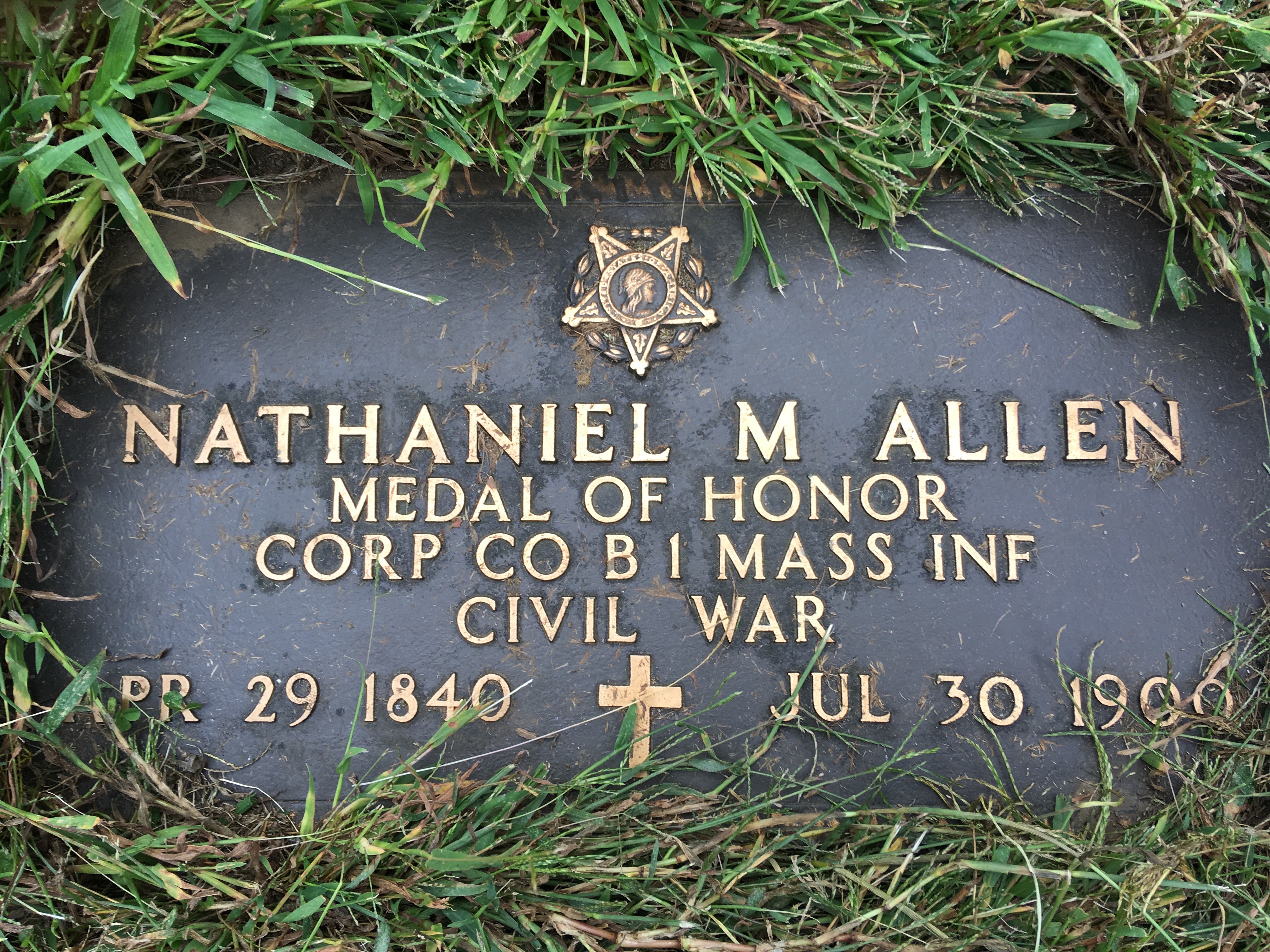 Grave marker in Acton, Massachusetts for Nathaniel M. Allen, a Civil War veteran and recipient of the Medal of Honor